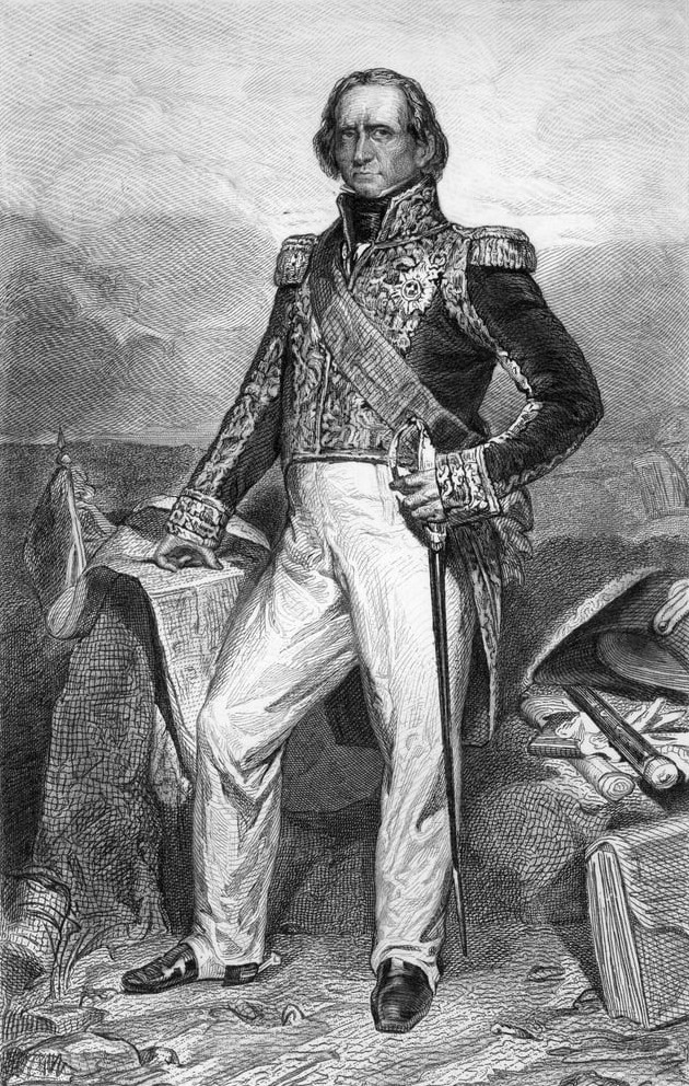 Marshal Soult. A corps commander during the campaigns of 1805–1807, he is best known for the prominent part he played in the Peninsular War in Spain and Portugal.